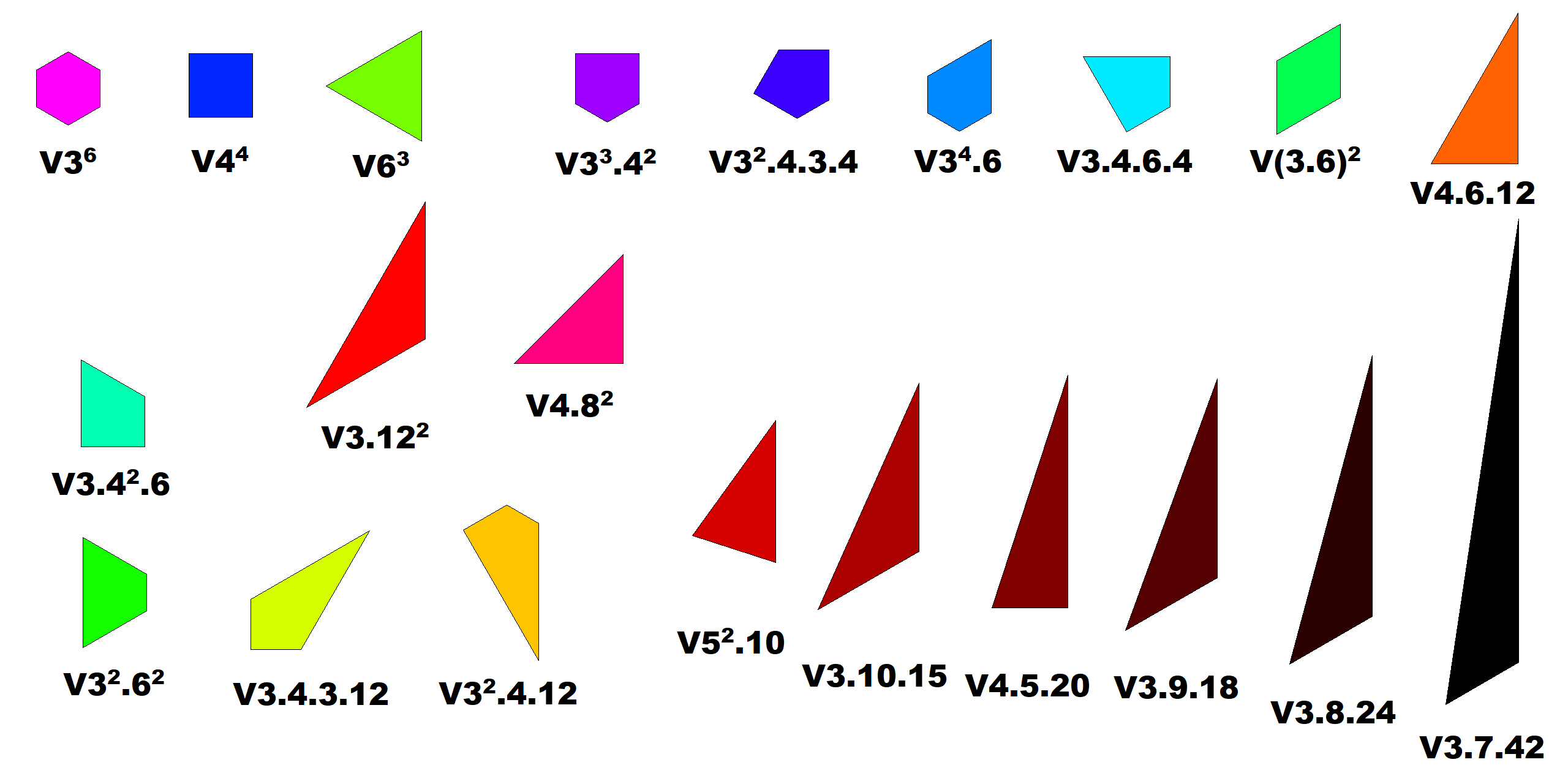 All 21 possible vertex polygons which can potentially dual uniformly tile the plane. Out of these 21, only 15 are actually capable of doing so, 14 can be combined, and 11 can tile the plane alone.